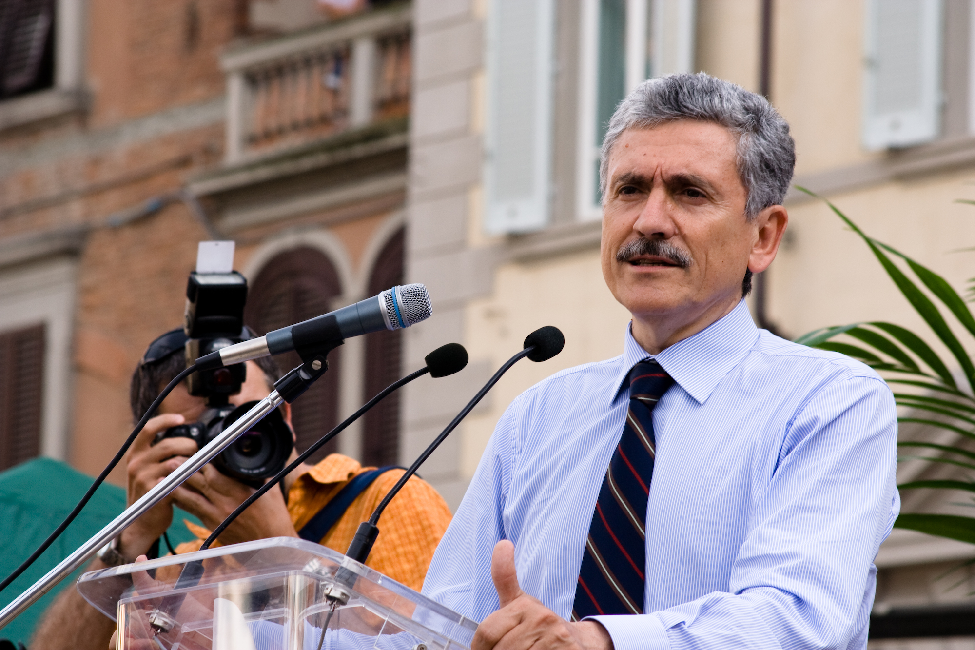 Massimo D'Alema